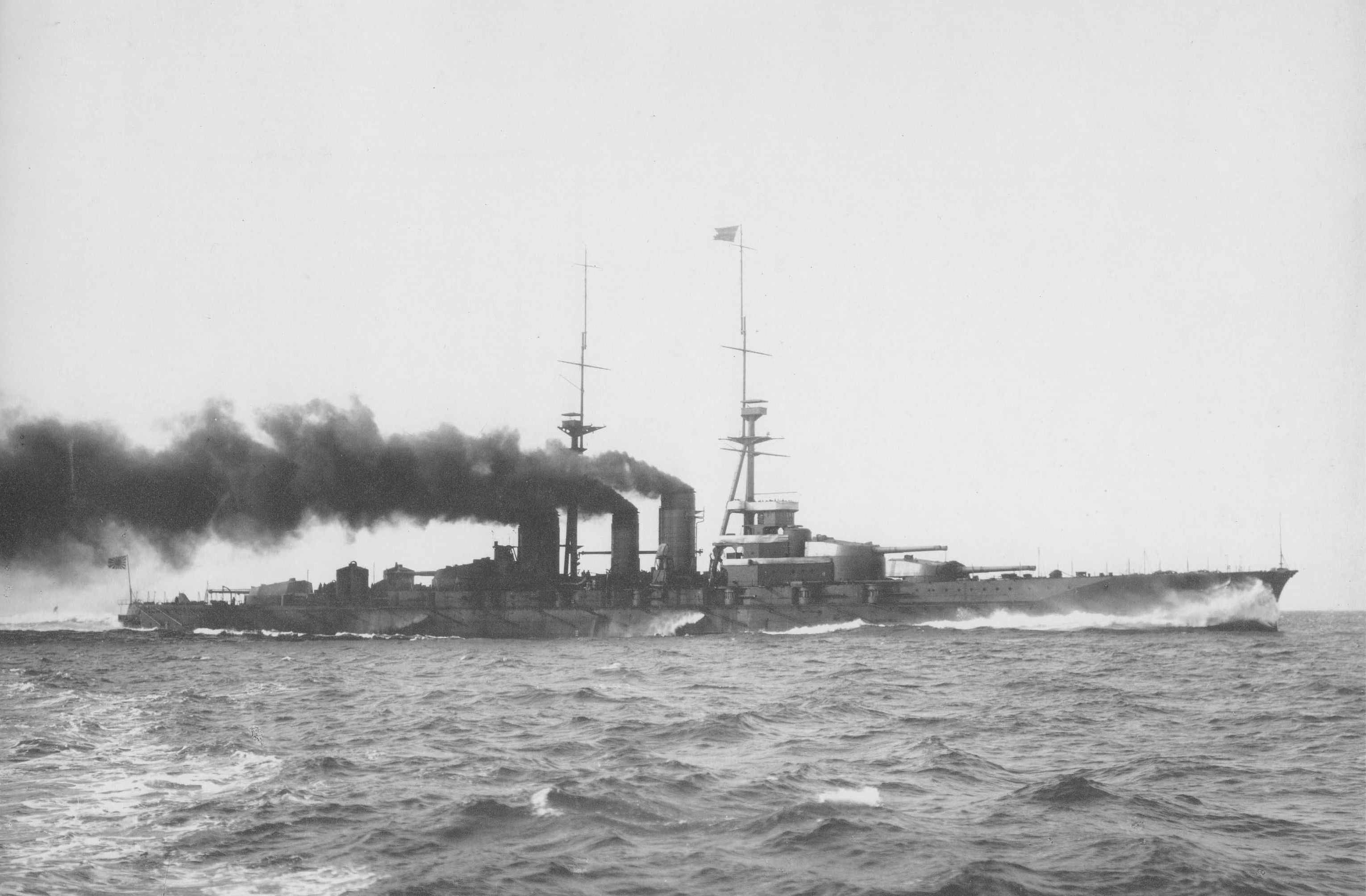 Imperial Japanese Navy battlecruiser Haruna undergoing sea trials in 1915.